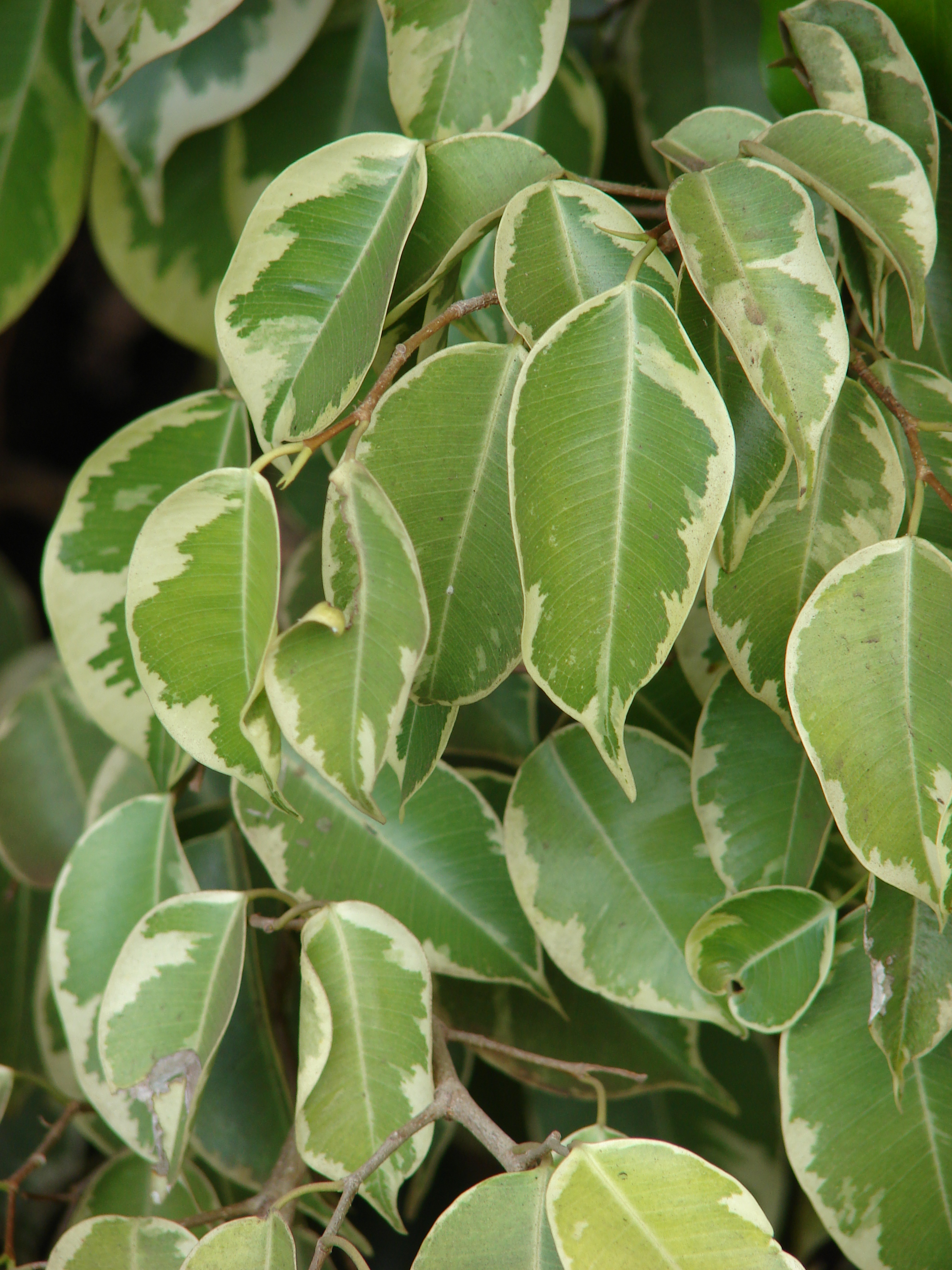 Ficus benjamina (variegated leaves). Location: Maui, Kihei